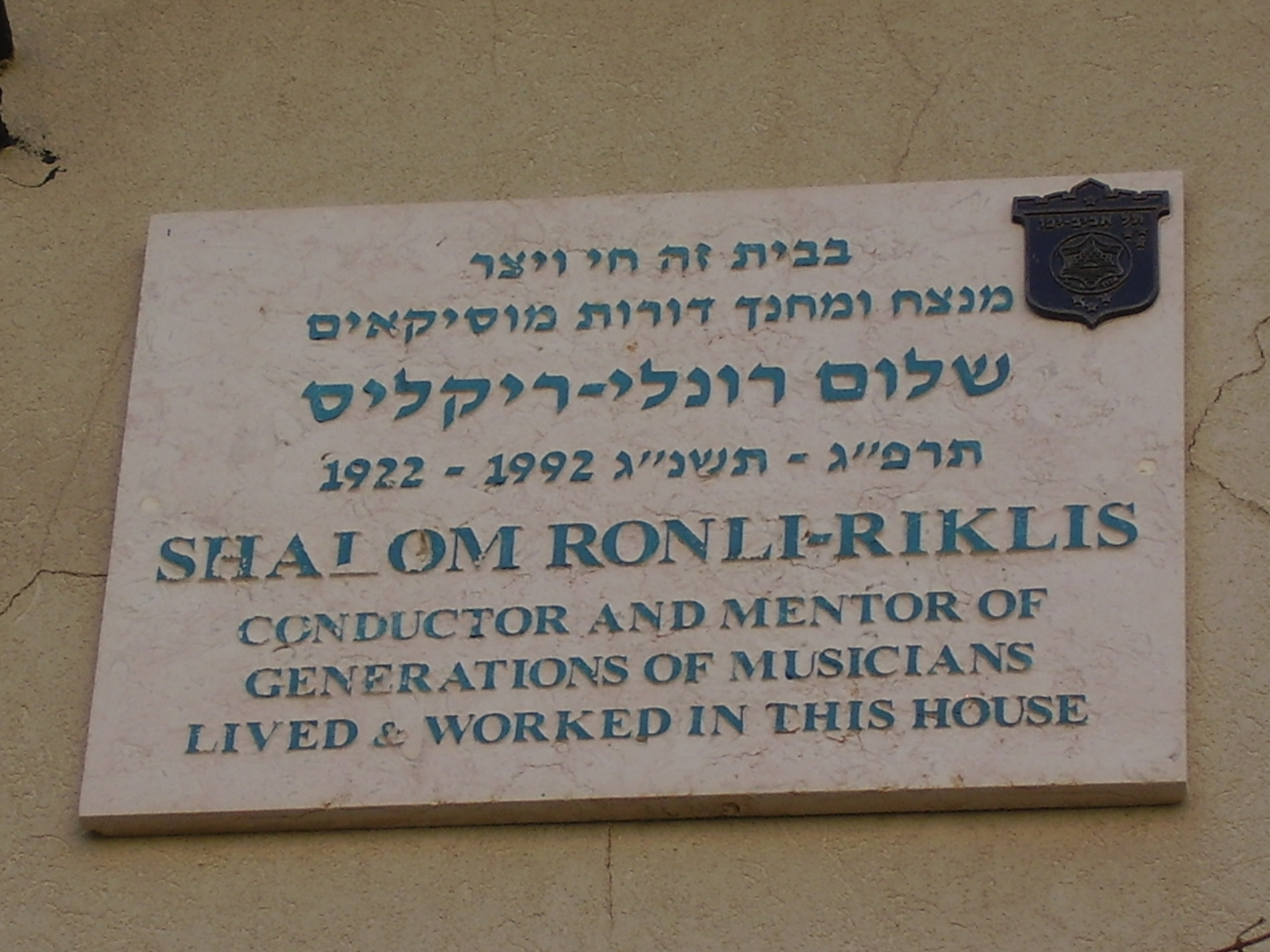 plaque memorial on the conductor shalom ronli-riklis in tel aviv לוחית זיכרון על ביתו של המנצח שלום רונלי-ריקליס ברחוב מיכה 18 בתל אביב